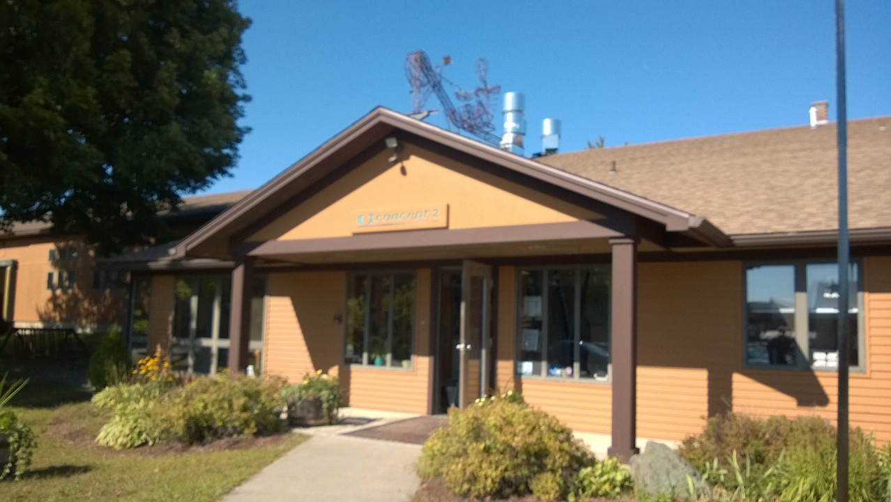 Scenes from a factory tour at Concept2 in Morrisville, Vermont